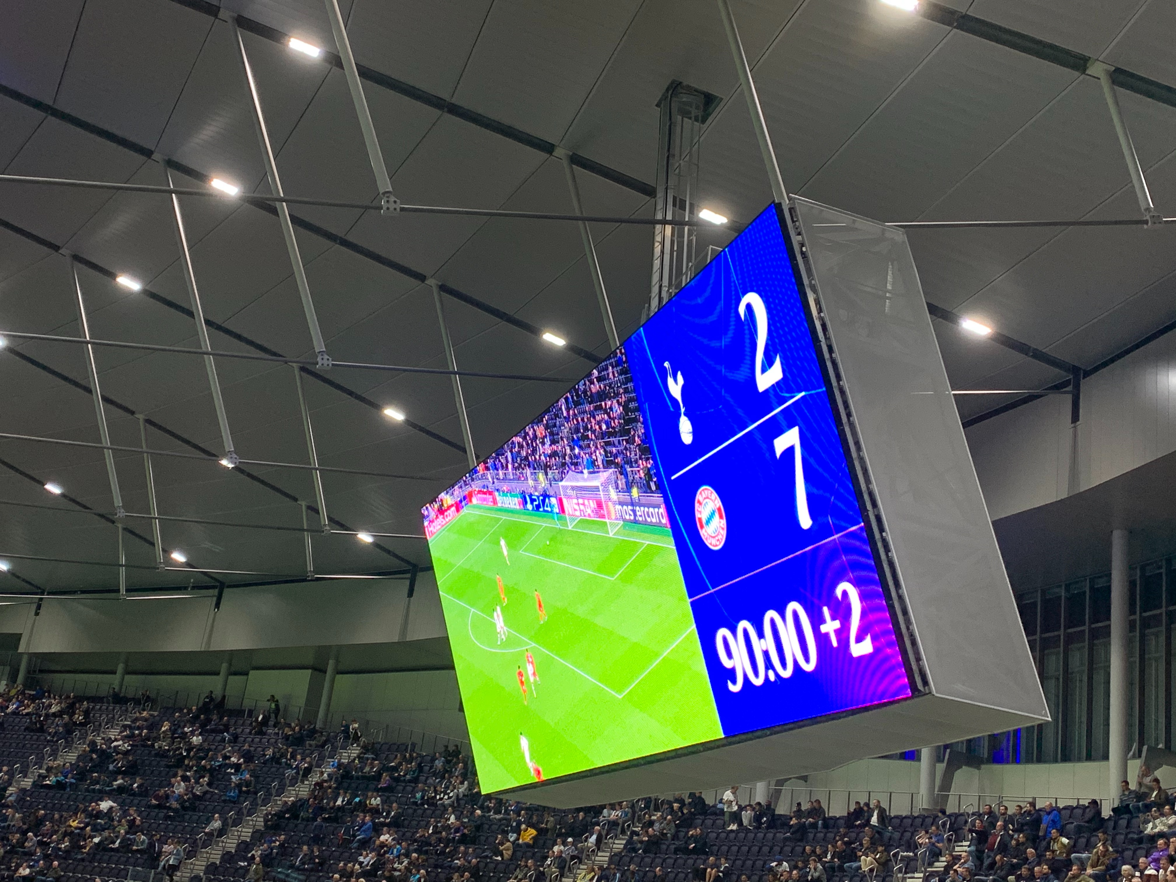 Scoreboard display at Tottenham Hotspur stadium from Champions League game.